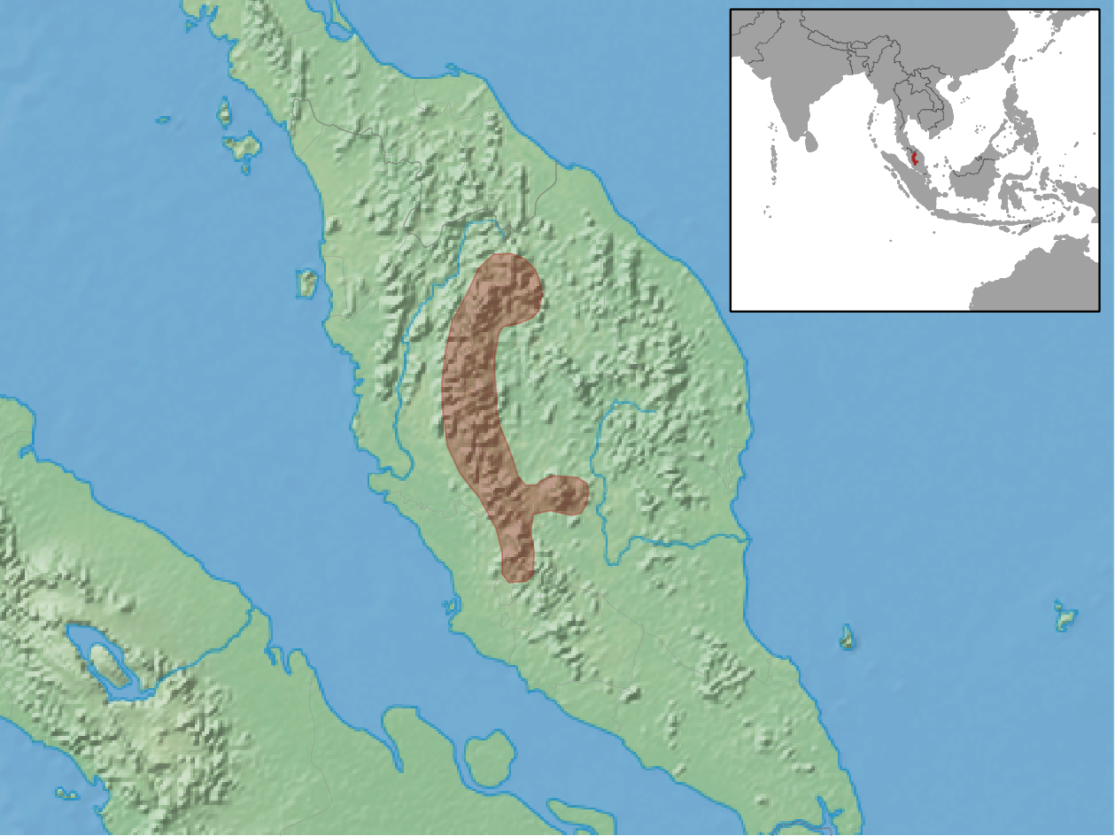 geographic distribution of Arielulus societatis